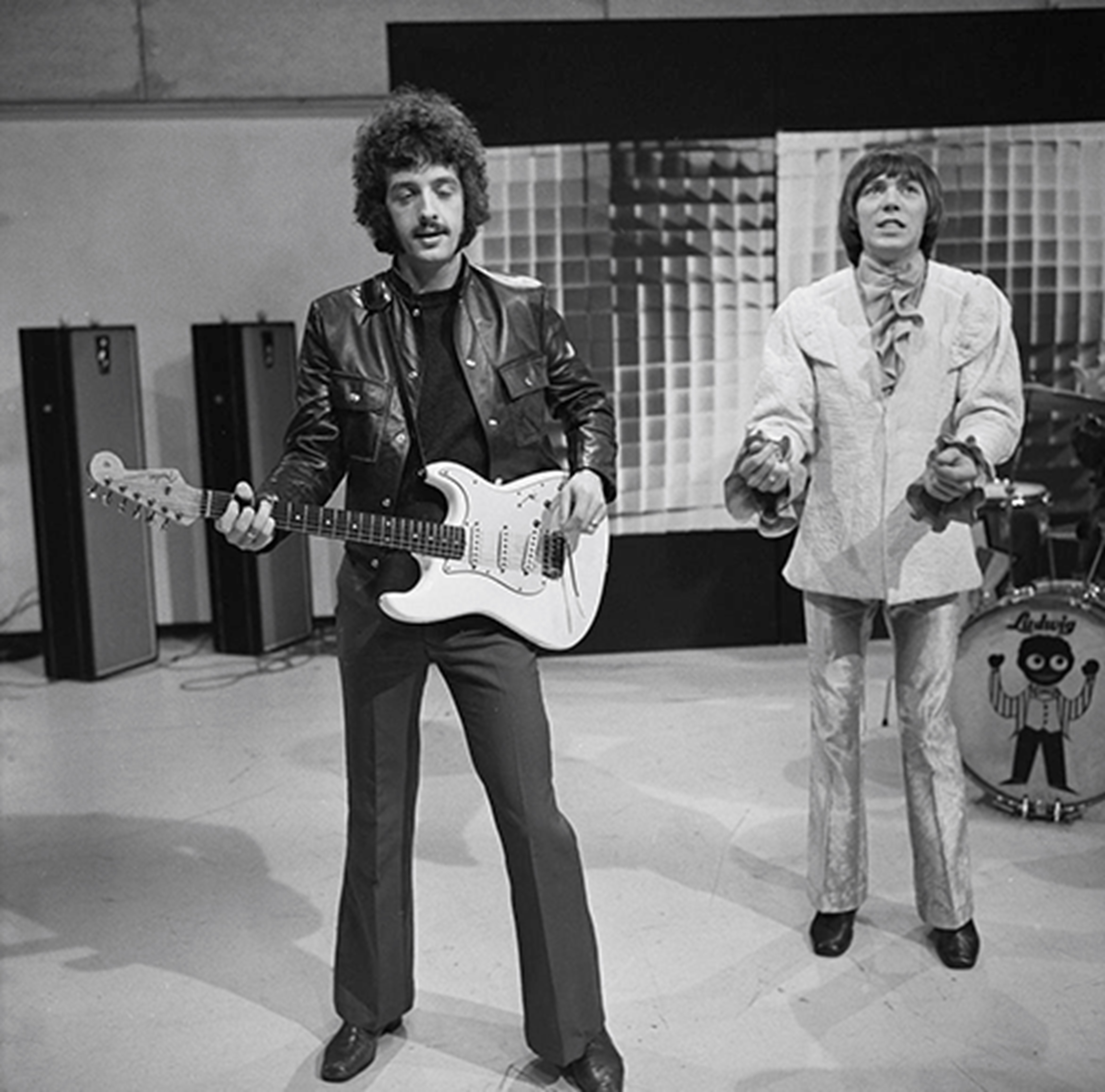 Junior Campbell and Dean Ford of Glasgow pop group Marmalade, during recordings for Dutch TV programme Fenklup, 5 April 1968